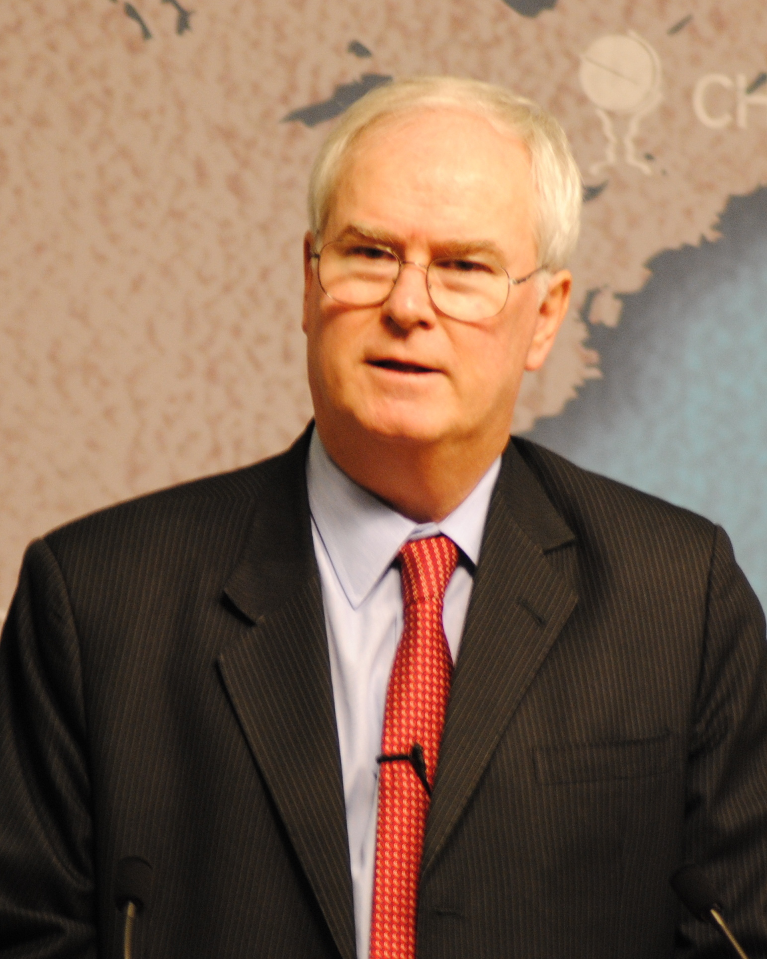 The UK Permanent Representative to the United Nations, Ambassador Mark Lyall Grant, discussed the UN's response to the Arab Spring - 27 June 2011